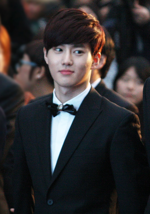 Suho at the Hallyu Star Street on March 12, 2014.